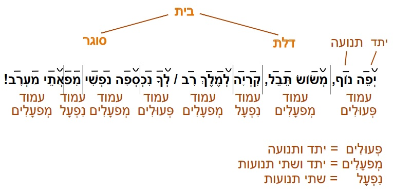 Meter of Yehuda Halevi's "Yefe Nof"